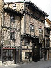 El Portalon restaurant in the medieval quarter of Vitoria-Gsteiz